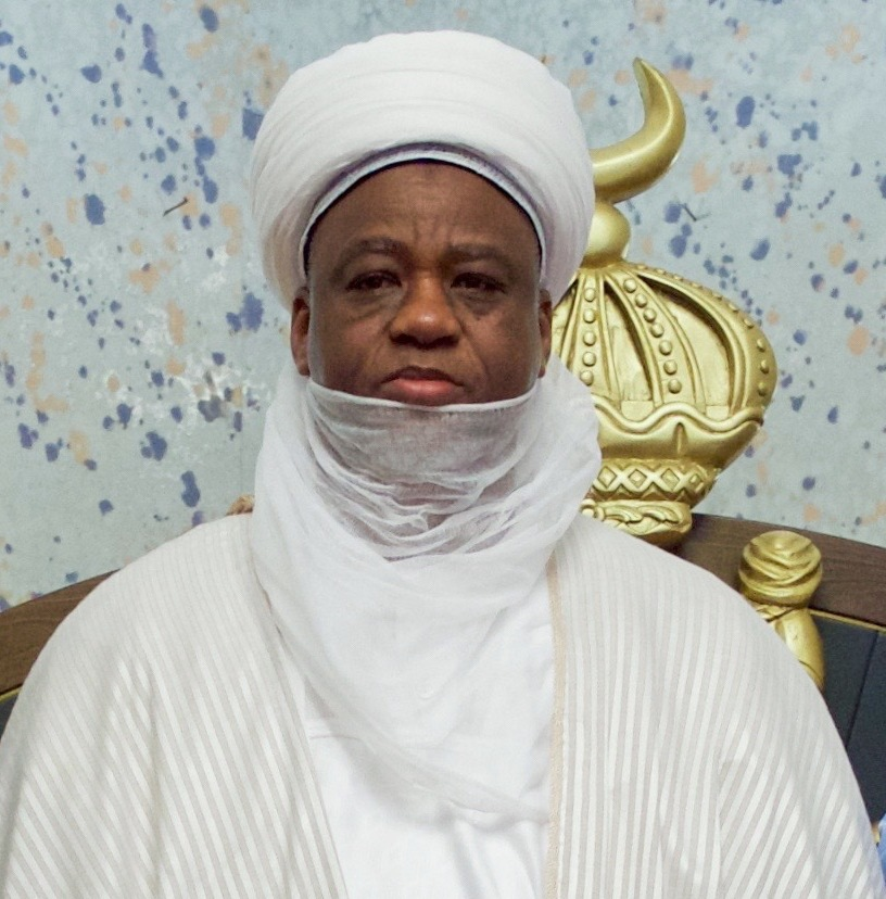 U.S. Secretary of State John Kerry poses for a photo with Sultan Muhammadu Sa’ad Abubakar, and Governor of Sokoto Aminu Waziri Tambuwai at the Sultan’s Palace in Sokoto, Nigeria, on August 23, 2016, before the Secretary held meetings with religious leaders and delivered a speech about countering violent extremism. [State Department photo/ Public Domain]